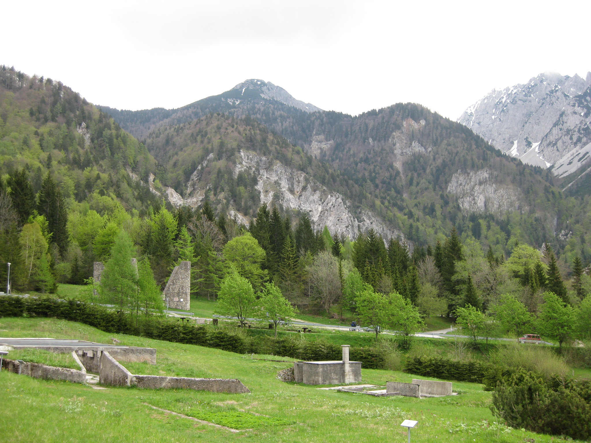 Ljubelj-Matthausen concentration camp of WW2